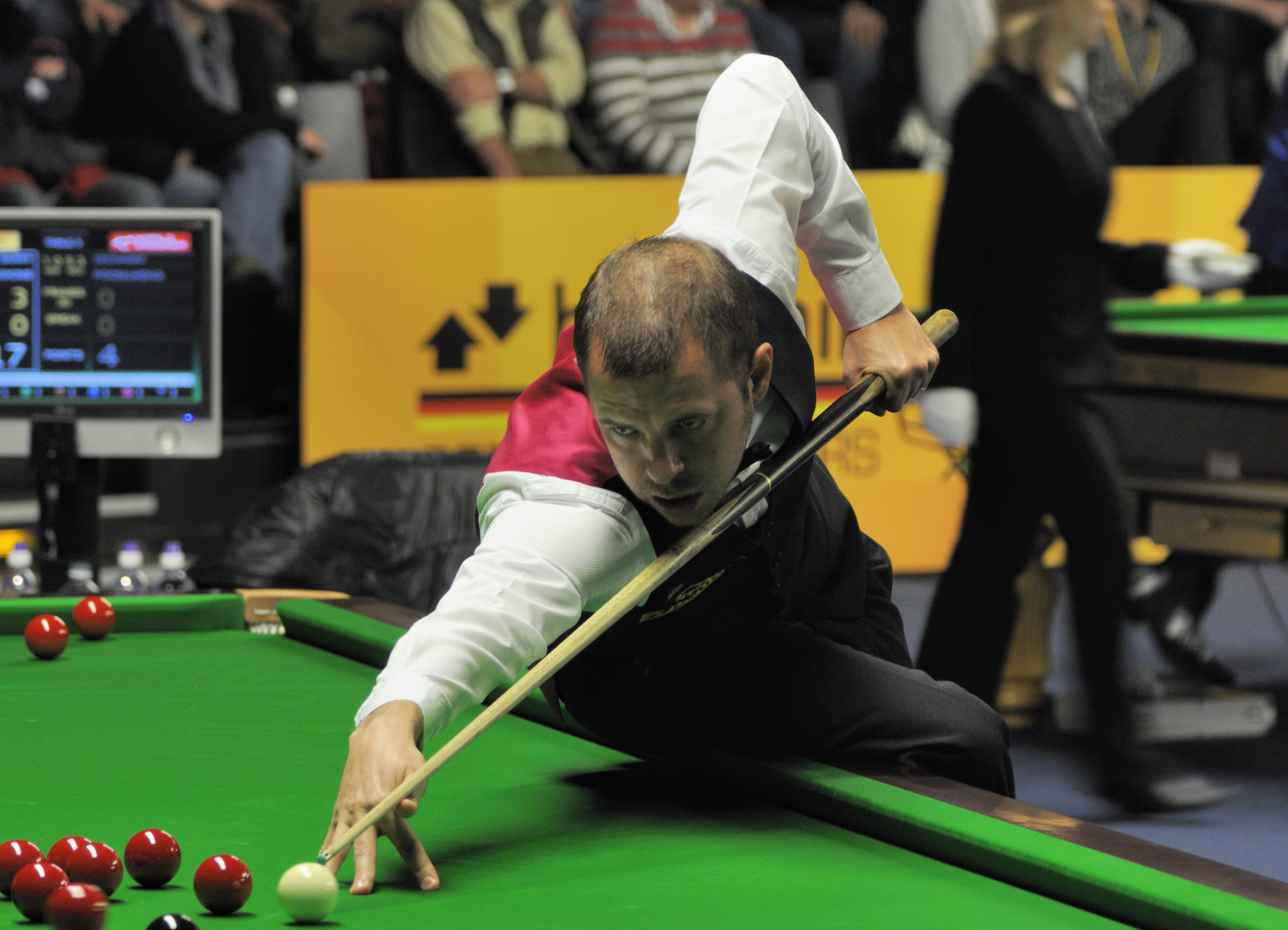 Picture taken in Berlin during the Snooker German Masters in 2013. Barry Hawkins.